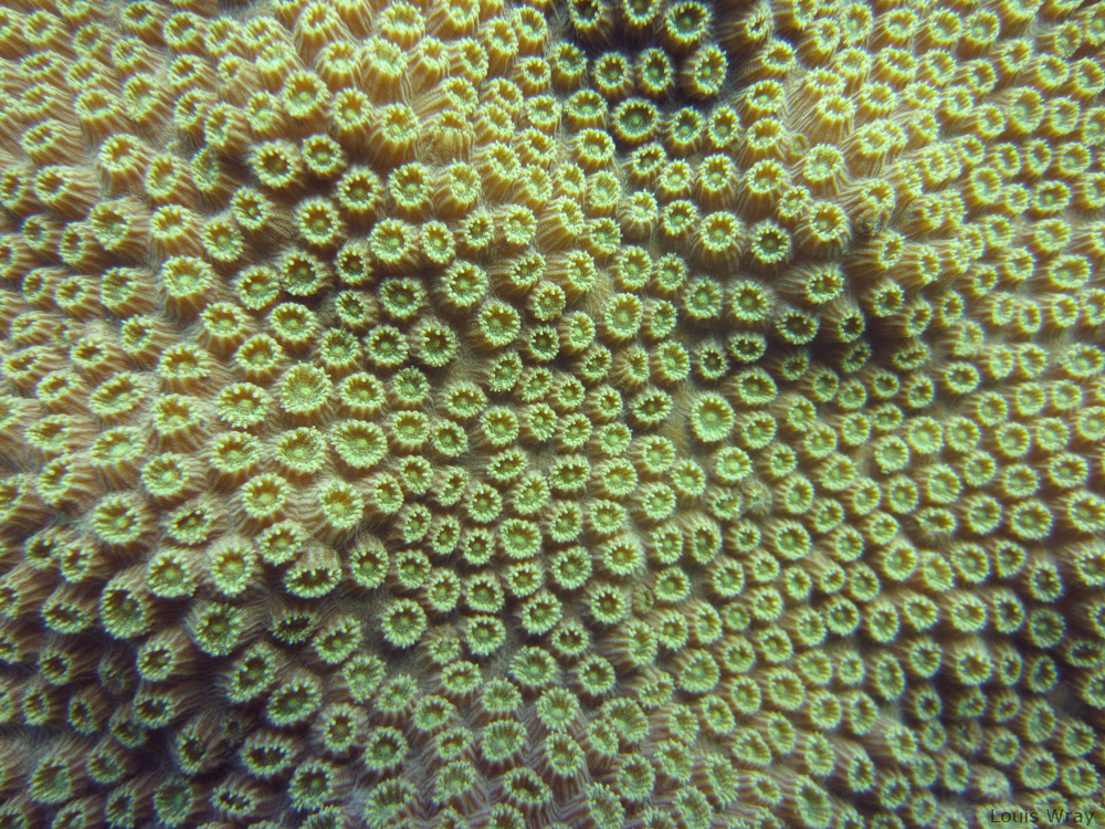 This is a macro photograph of Montastraea annularis, commonly known as Star Coral, found in Atlantic throughout the waters of the Caribbean.